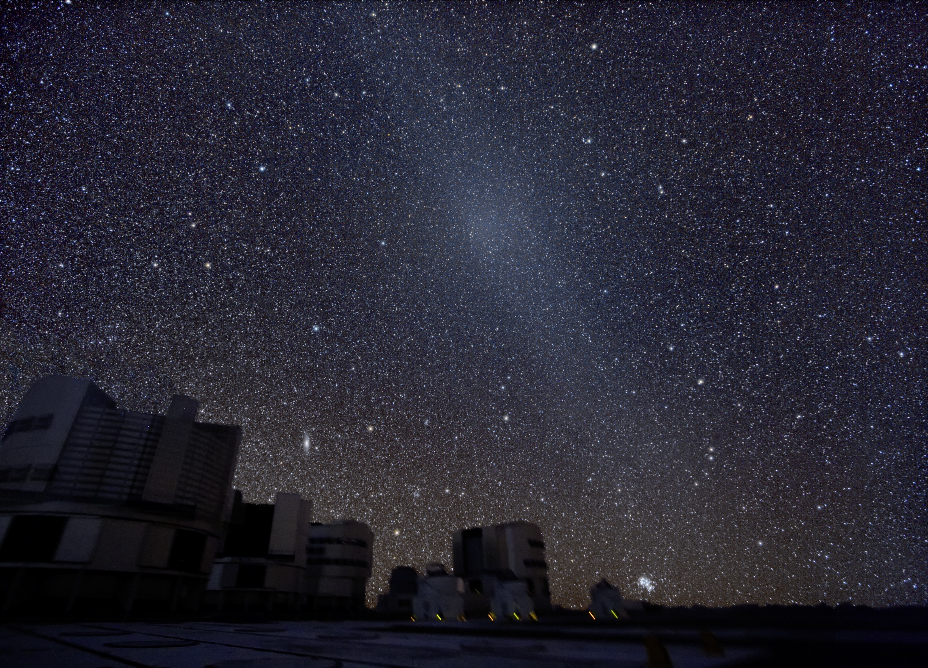 Gegenschein is a faint brightening of the night sky in the region of the ecliptic directly opposite the Sun, caused by the reflection of sunlight by interplanetary dust in the Solar System. The Gegenschein is seen in this image as a band running diagonally from the top left to lower right. The image was obtained by Yuri Beletsky in October 2007 using a digital camera equipped with a 10-mm wide-angle lens and installed on a portable equatorial mount. The total exposure time was about 45 min. The weather conditions during the observations were excellent: the sky transparency was close to perfect, which allowed Yuri to capture very faint details of the Gegenschein and reveal its fine structure.